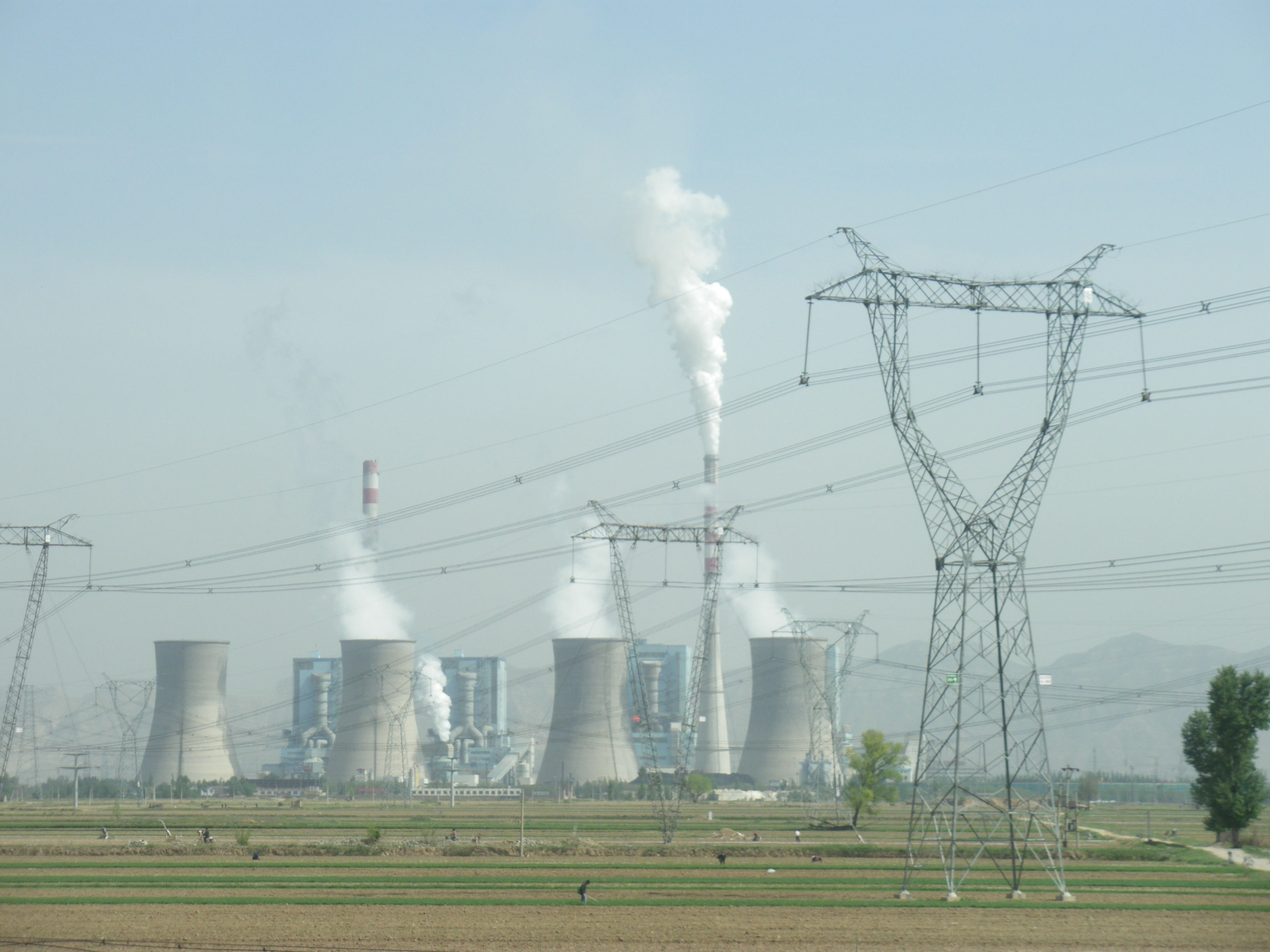 Photo of a coal-fired power plant in Shuozhou, Shanxi, China